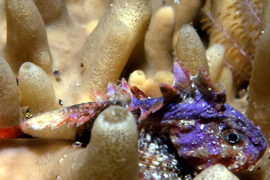 smoothskin scorpionfish. Coccotropsis gymnoderma, waspfish